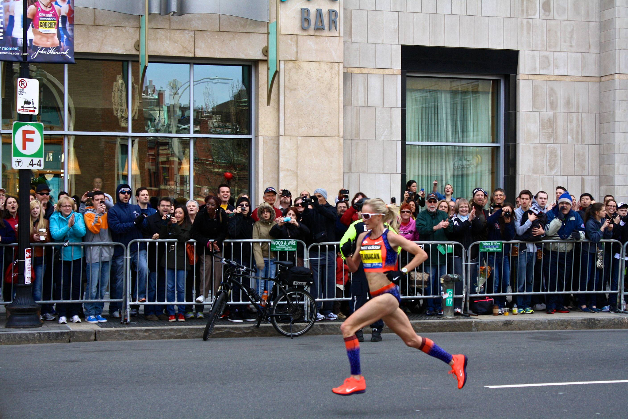 Shalane Flanagan running in the 2013 Boston Marathon.